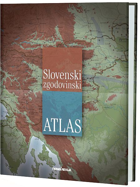 Book cover (Slovenski zgodovinski atlas, 2011)